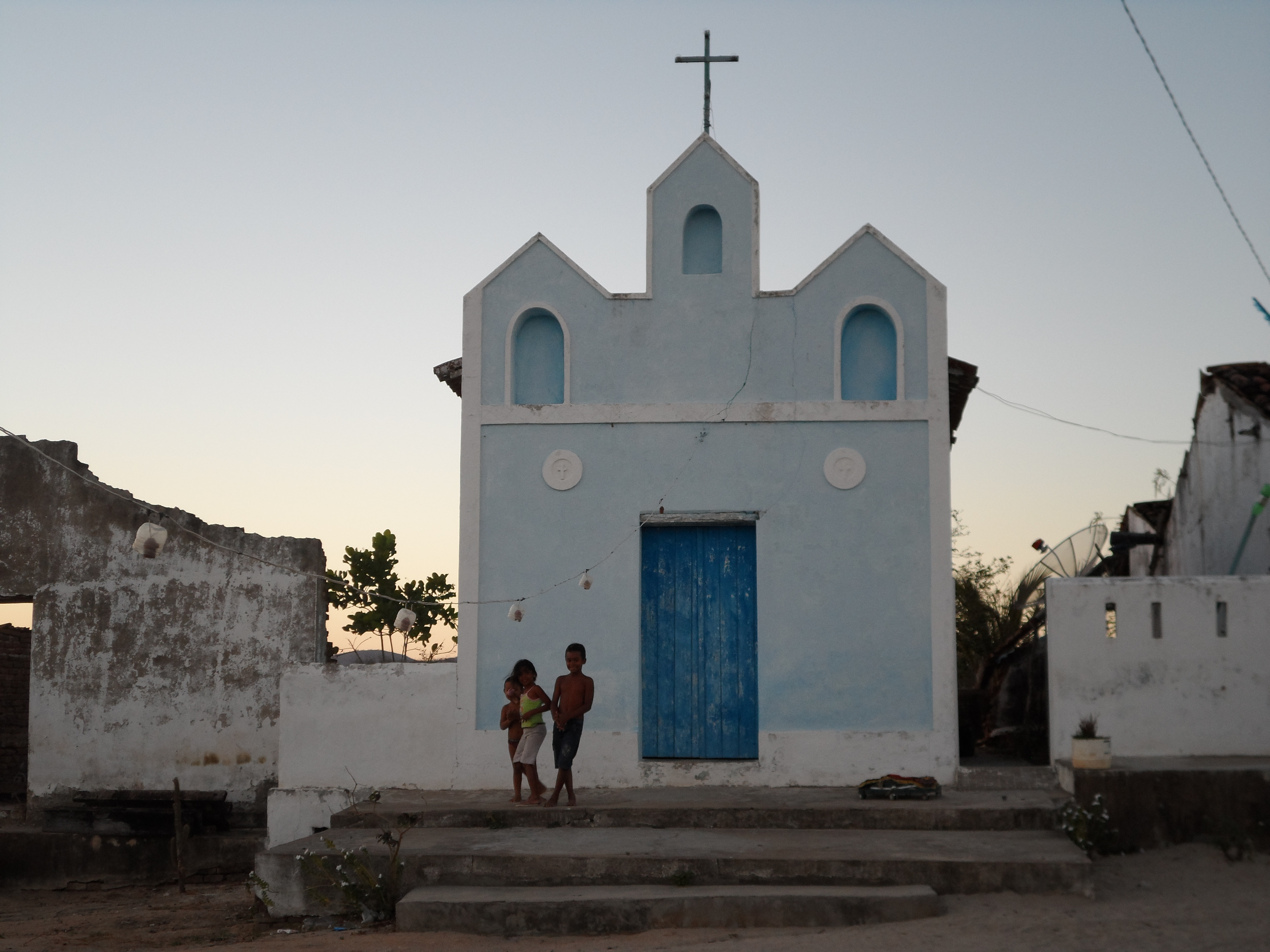 Catholic Churc